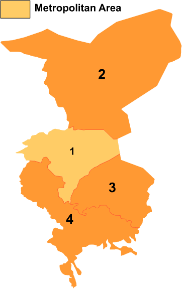 Map of Wuwei in Gansu province.